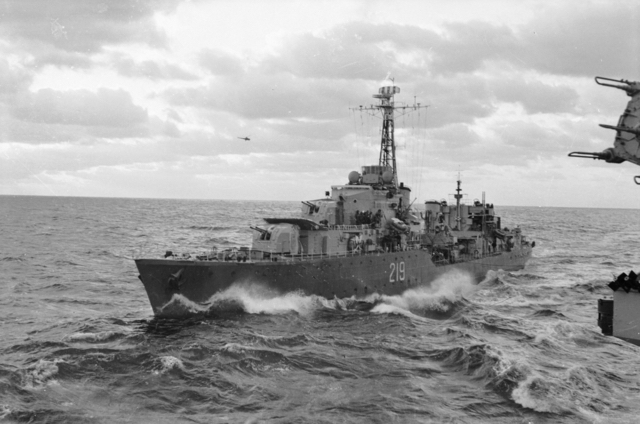 The Royal Canadian Navy Tribal class destroyer HMCS Athabaskan (219) photographed from the Australian aircraft carrier HMAS Sydney (R17), probably in Korean waters.